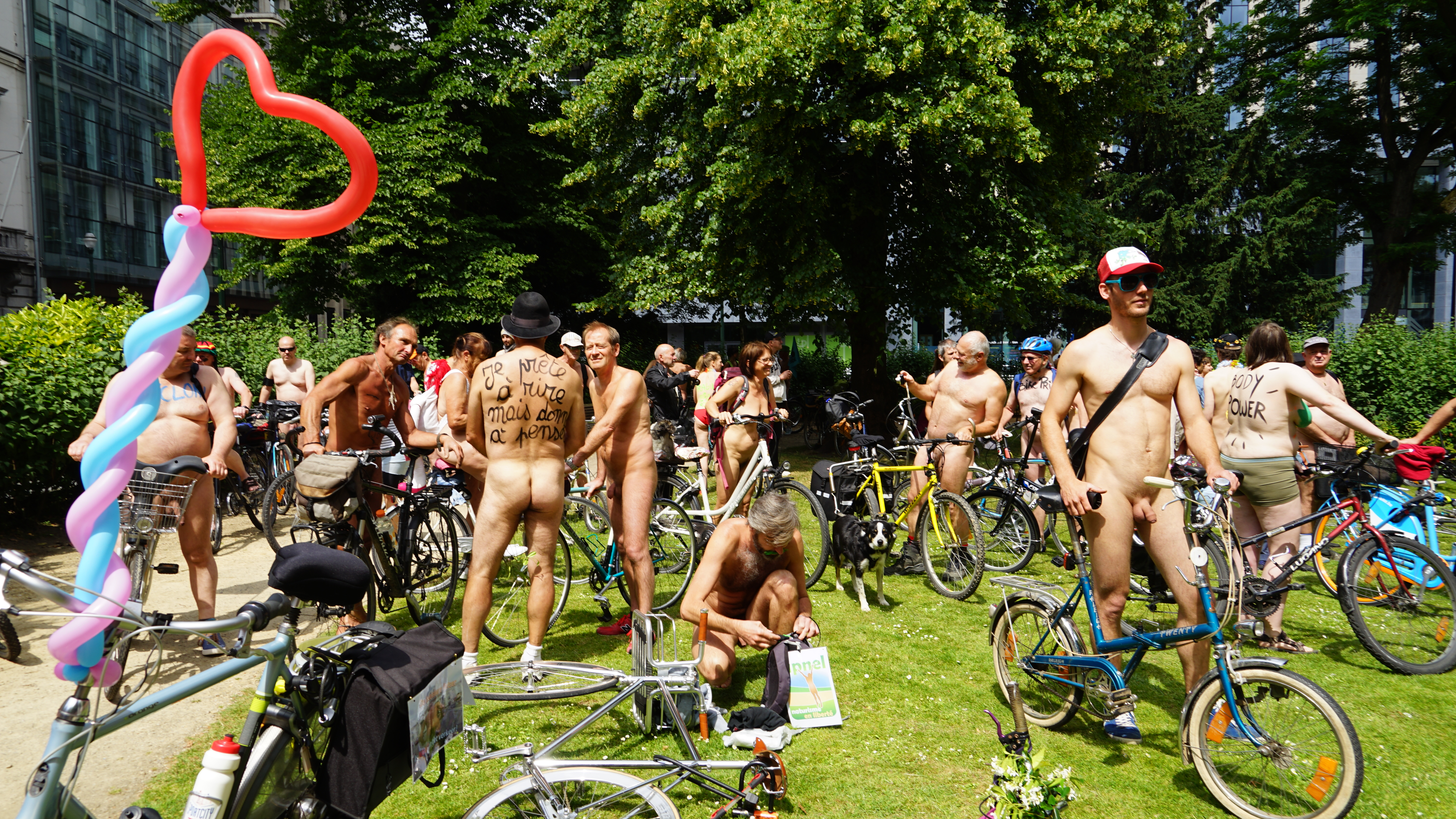 2015 World Naked Bike Ride in Brussels